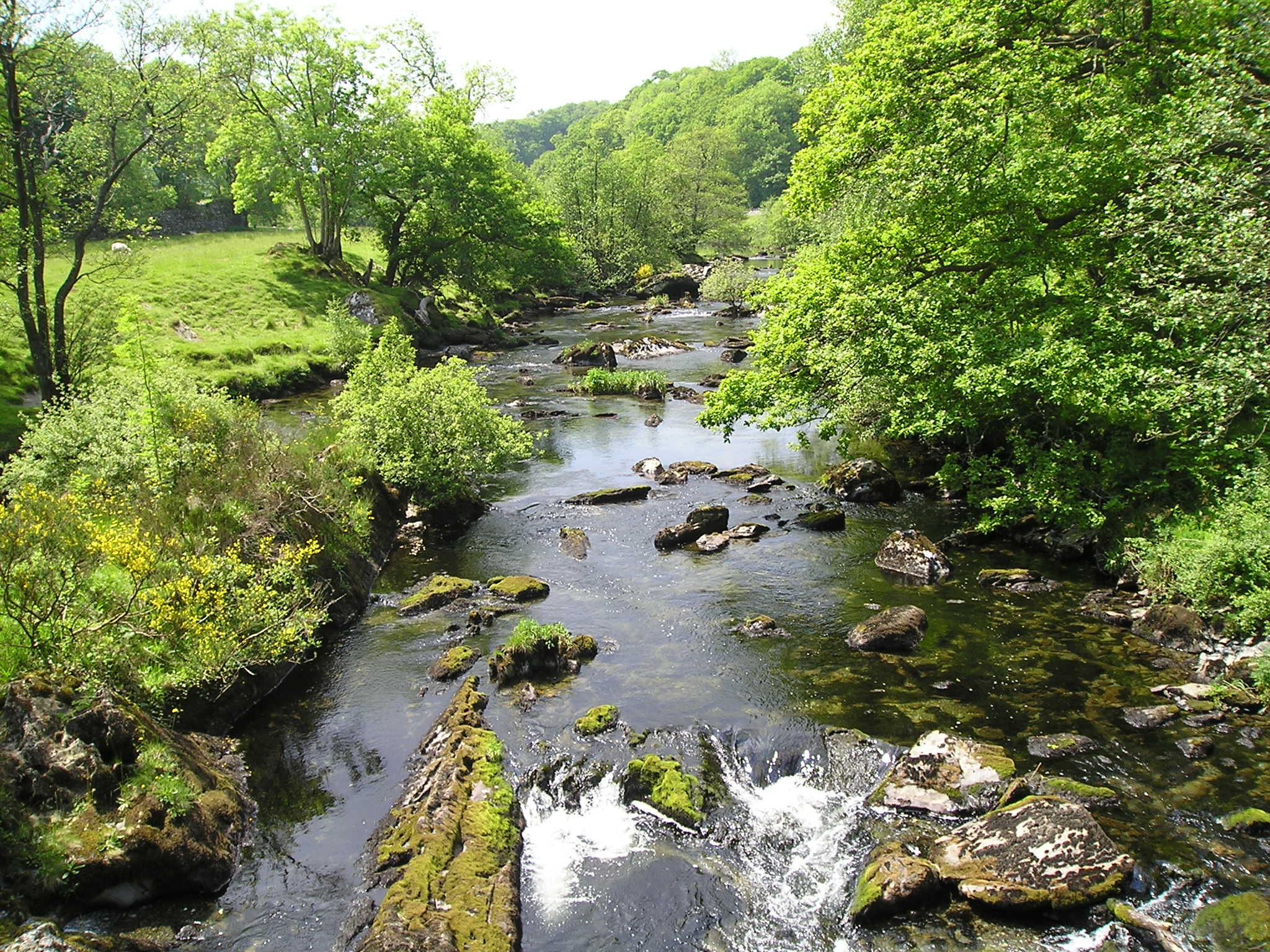 made by me Noel Walley